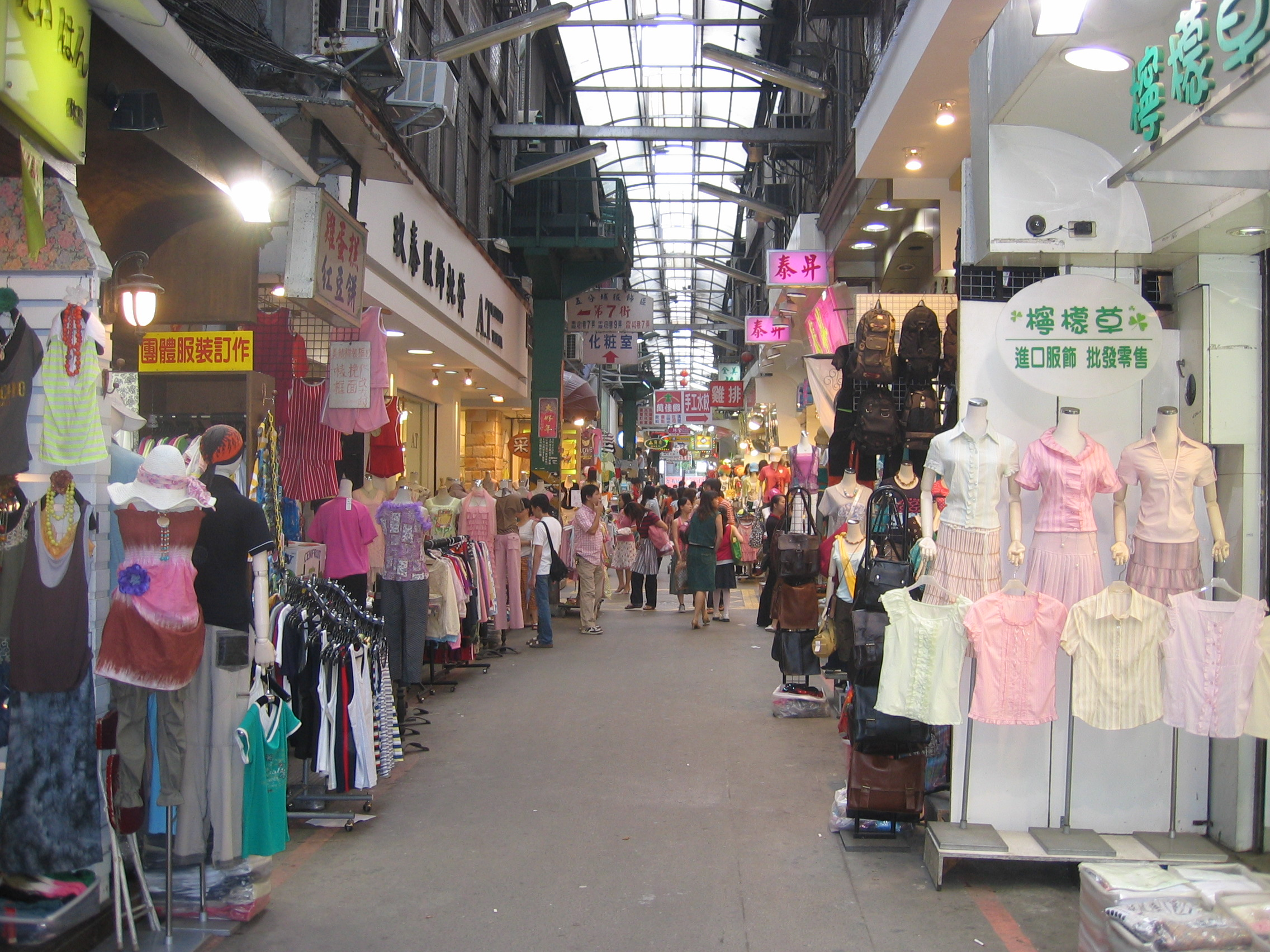 Description: Wufenpu Garment Wholesale Area, Songshan District, Taipei City, Republic of China. Author: User:Jiang Date: 2005.08.06